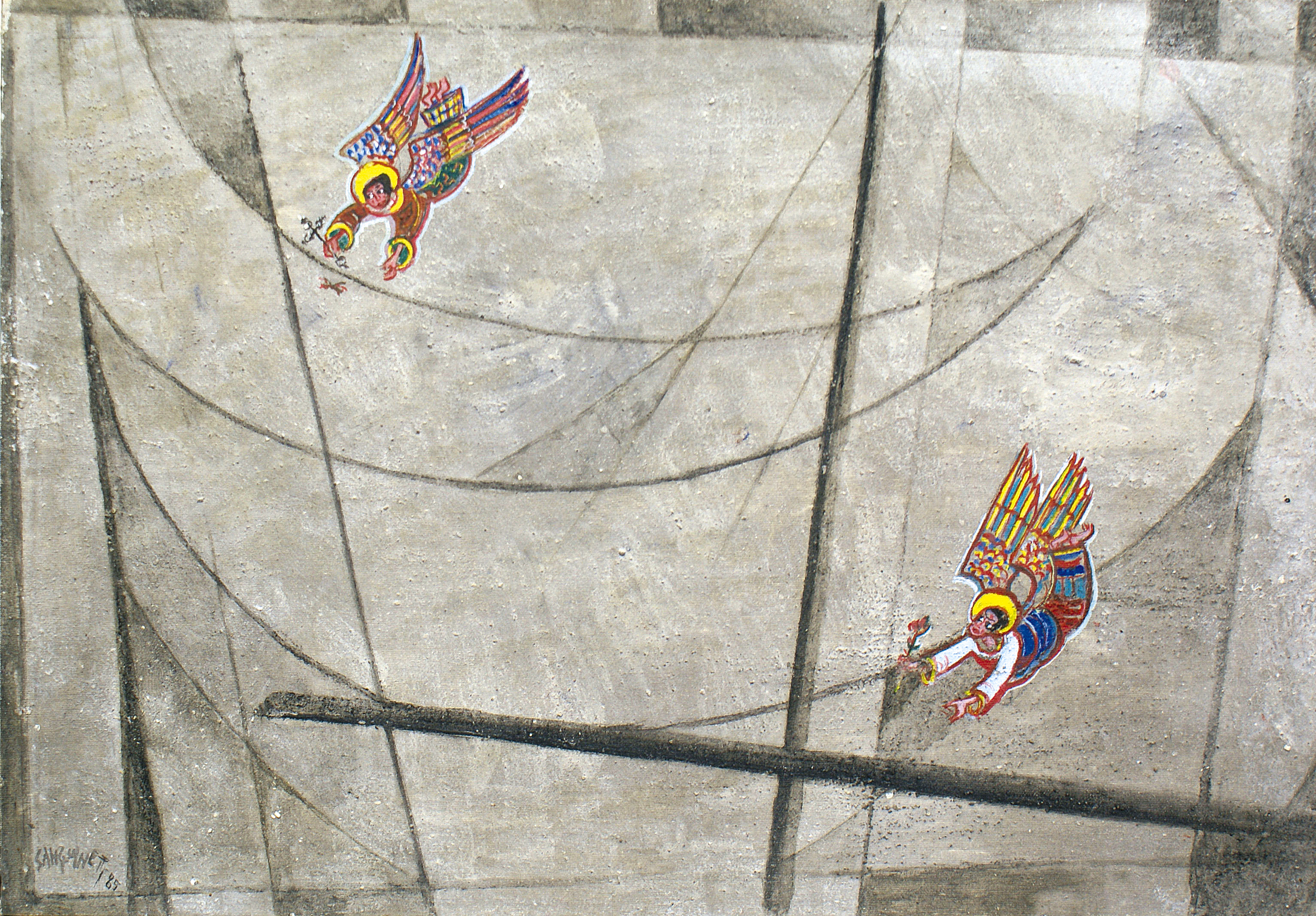 Foto opera Lalibela